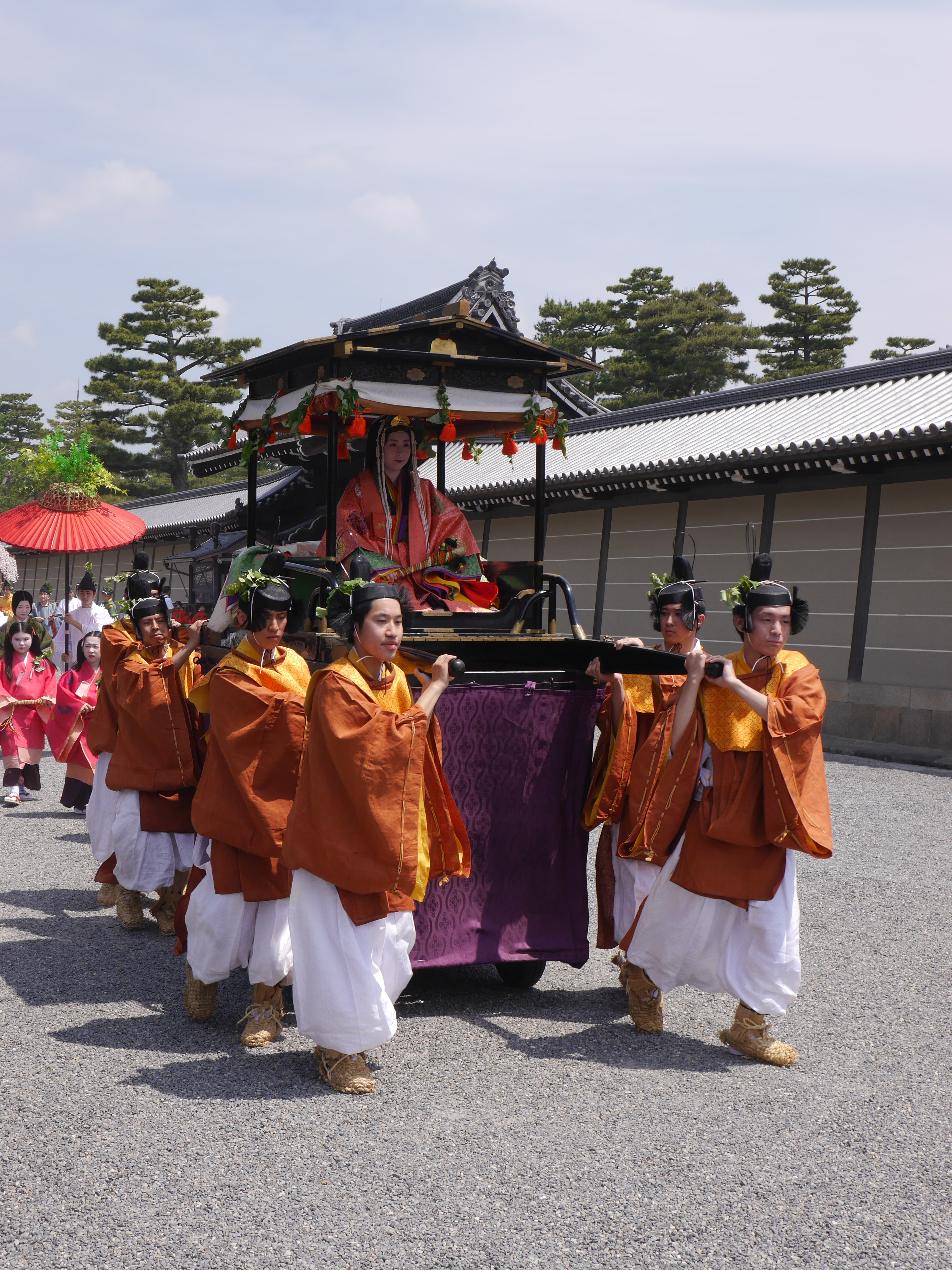 "Roto no gi". Just after "Saio-dai", who represents the festival has left the Kyoto Emperor's palace